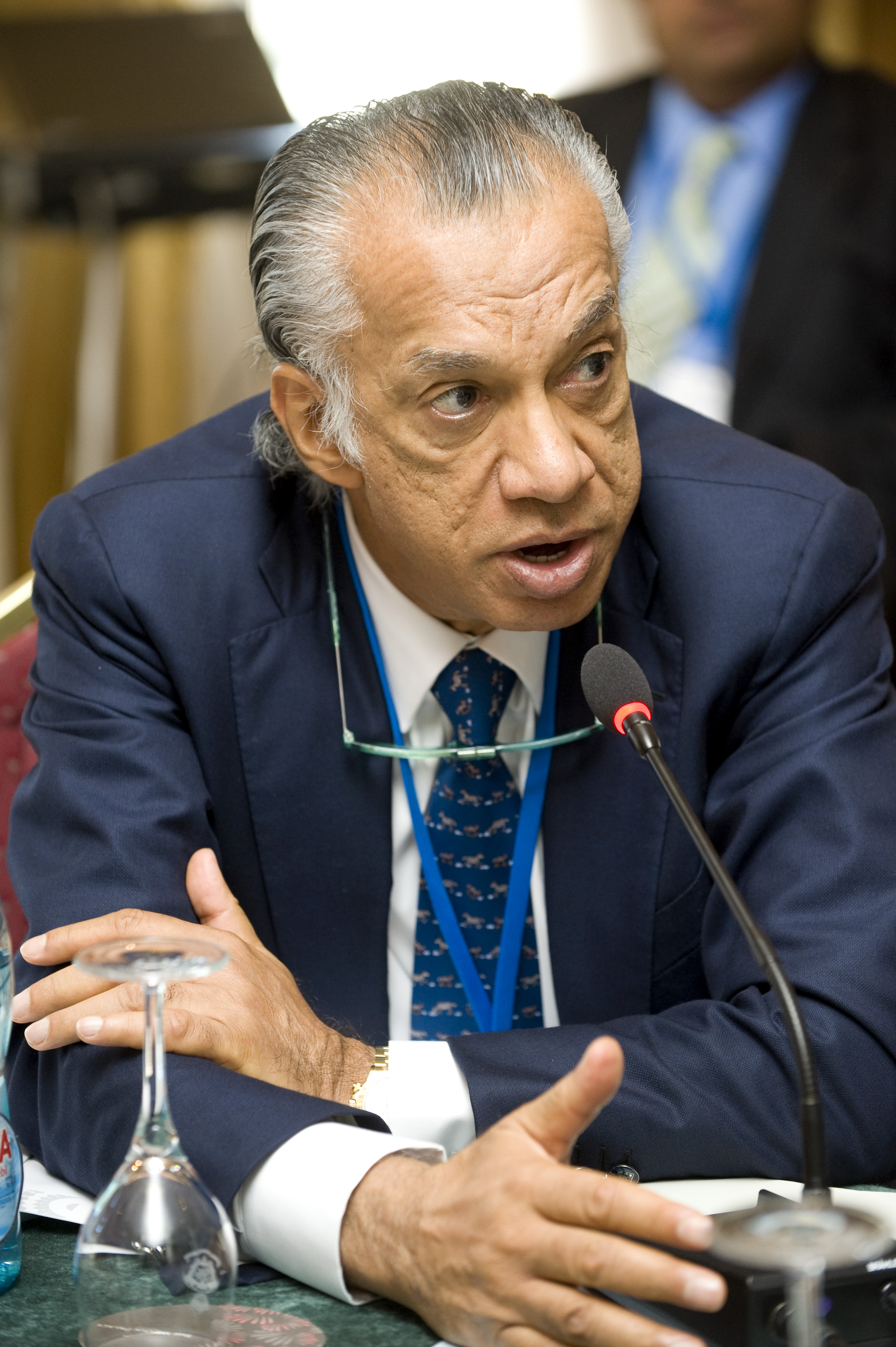 Gulu Lalvani, Chairman, Royal Phuket Marina, Thailand, at the 2010 Horasis Global India Business Meeting